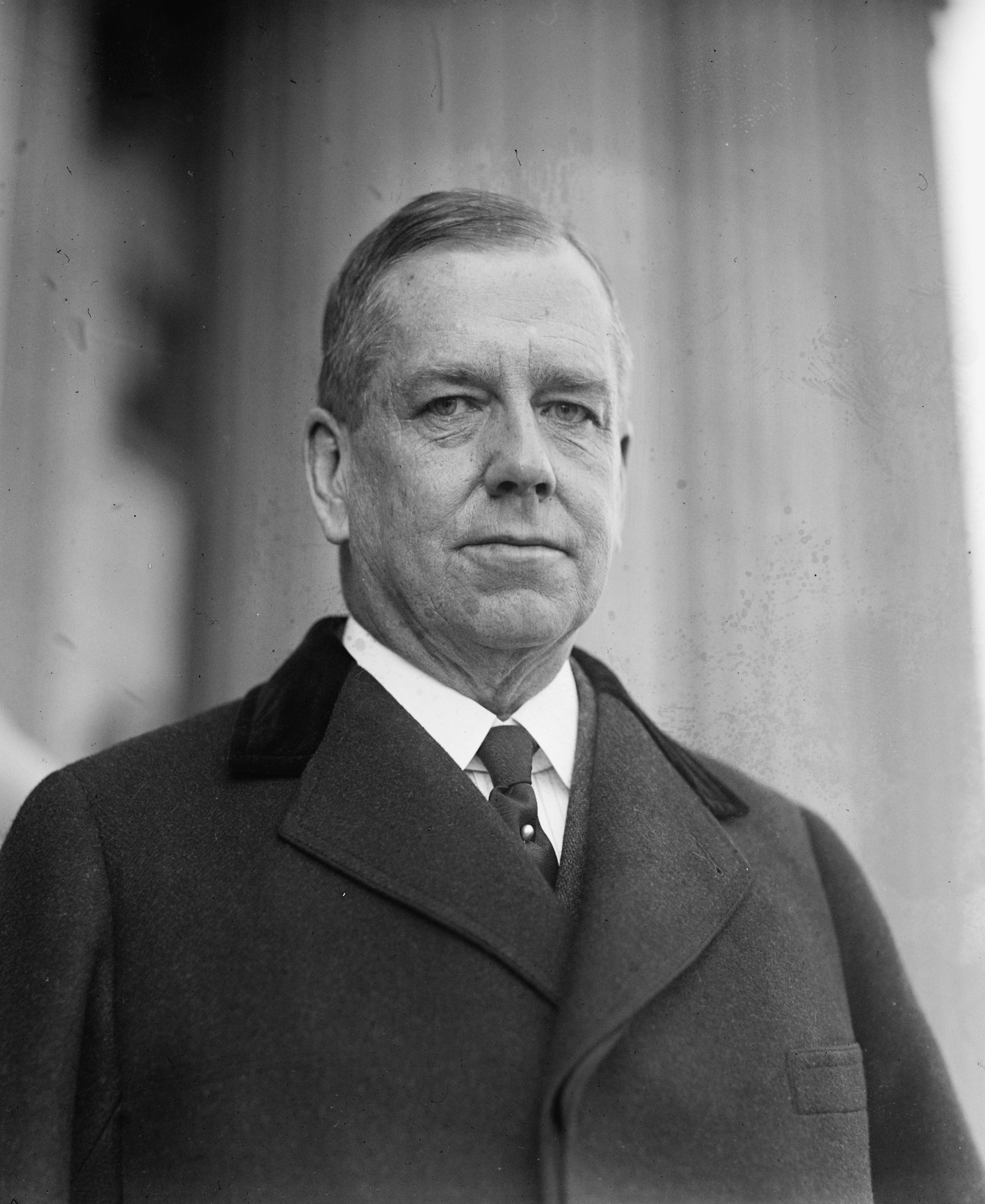 Senator-Elect Frederick M. Sackett of Kentucky, [12/11/24]